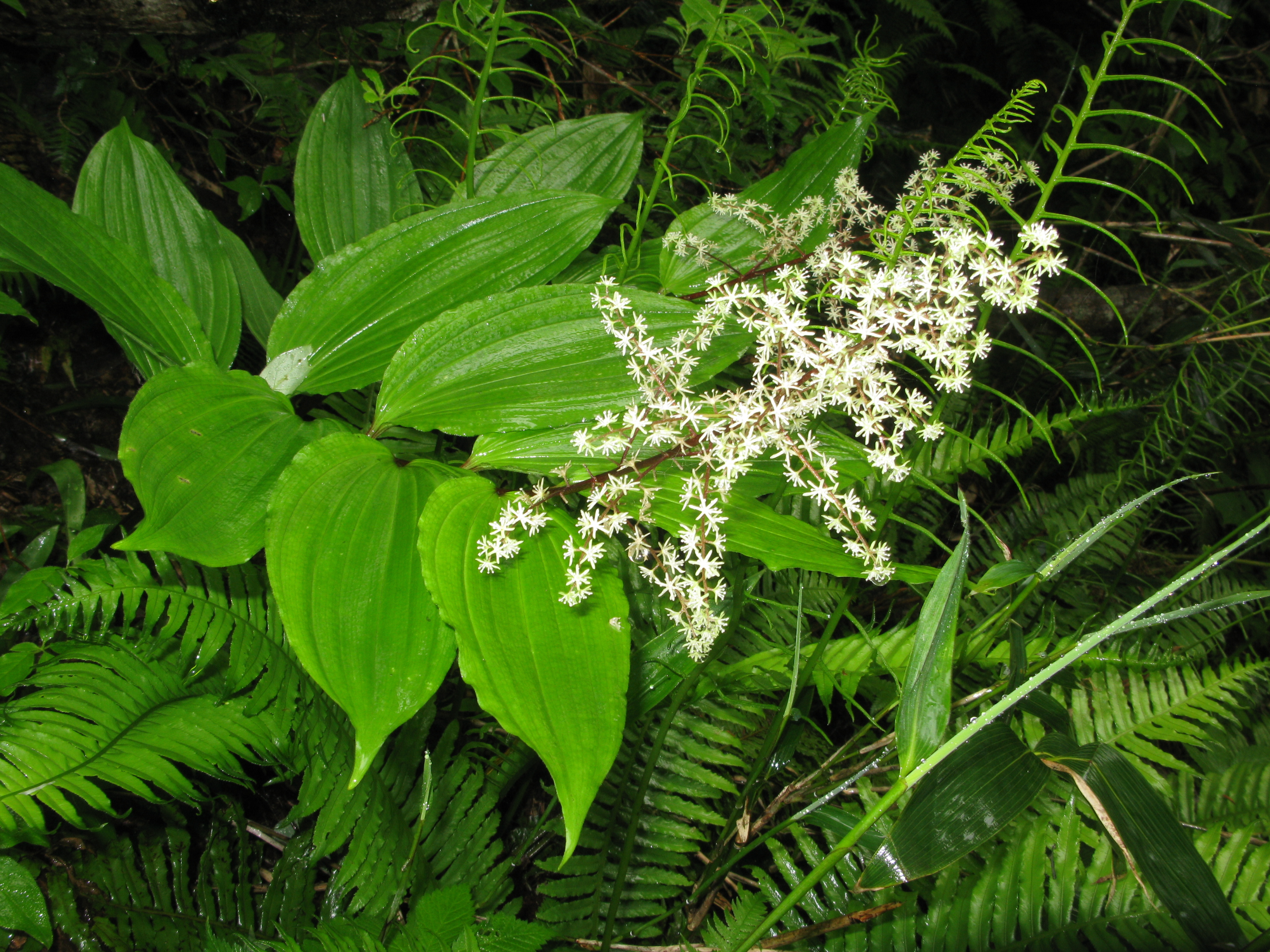 Maianthemum hondoense, Mount Hiuchi, Fukushima pref., Japan